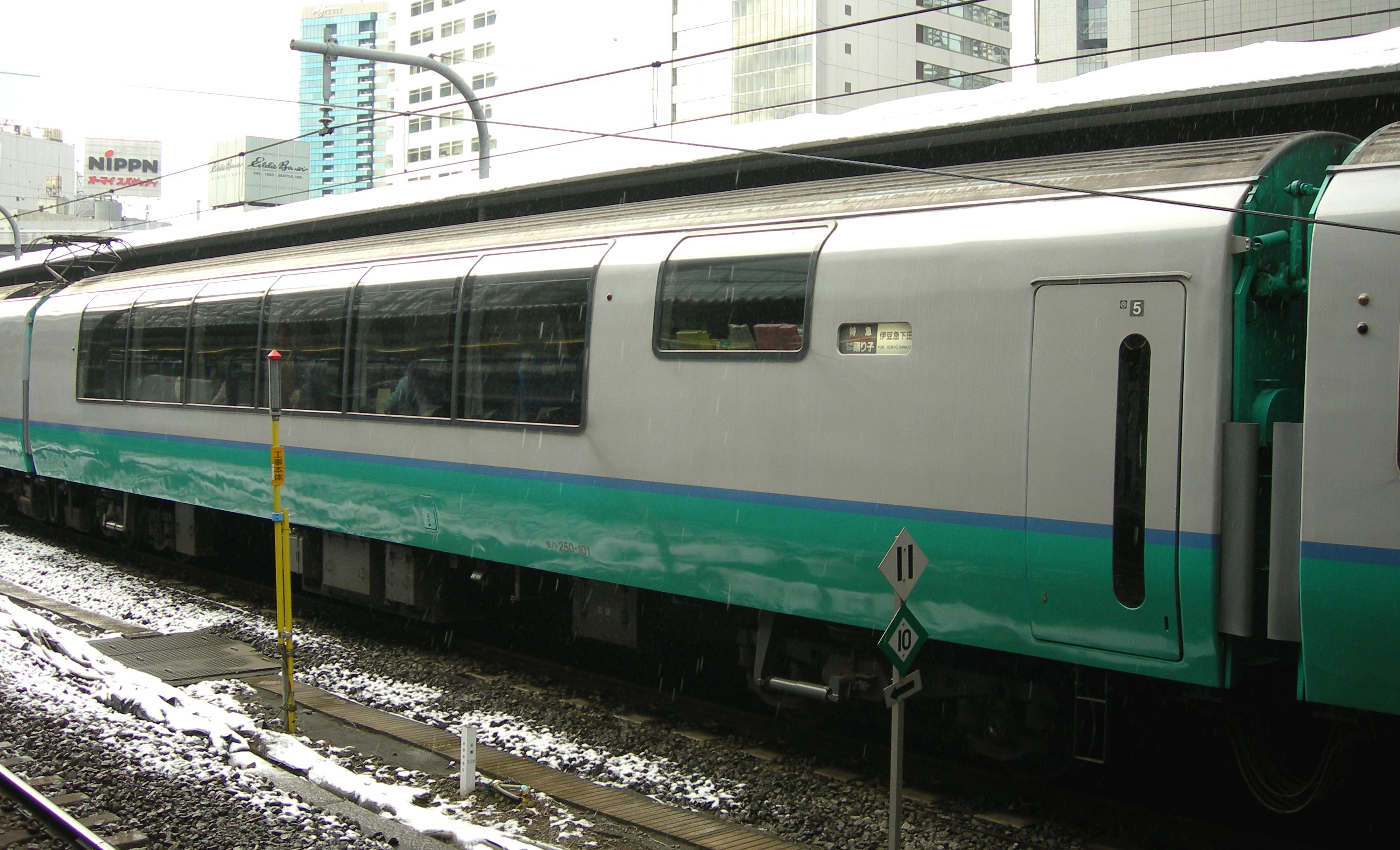 JR East 251 series EMU MoHa 250-100 car (car 5) at Shinjuku Station